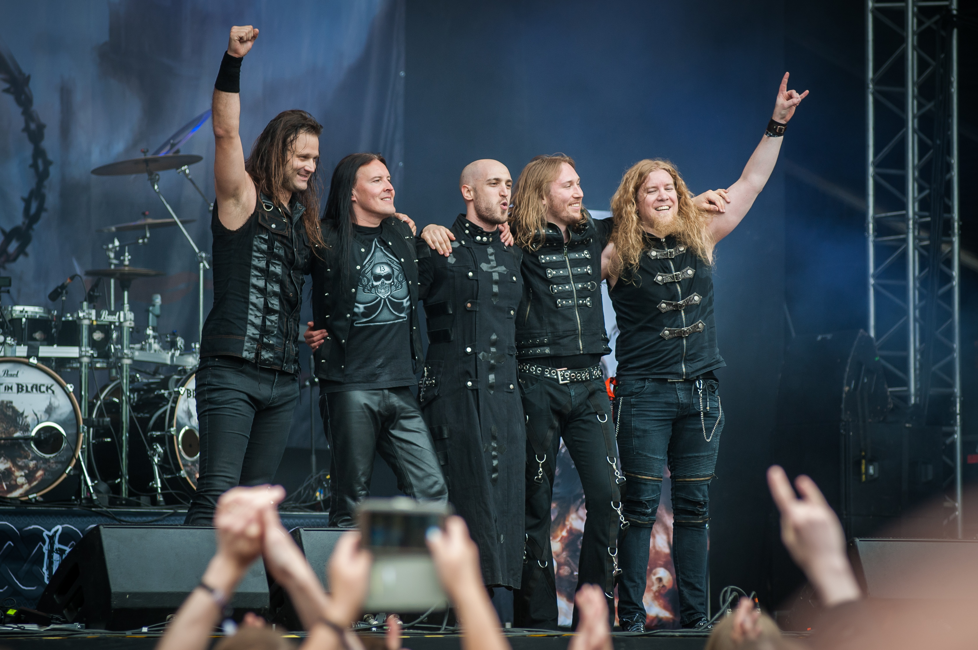 Finnish power metal band Beast In Black performing at the 2018 South Park festival in Tampere, Finland.